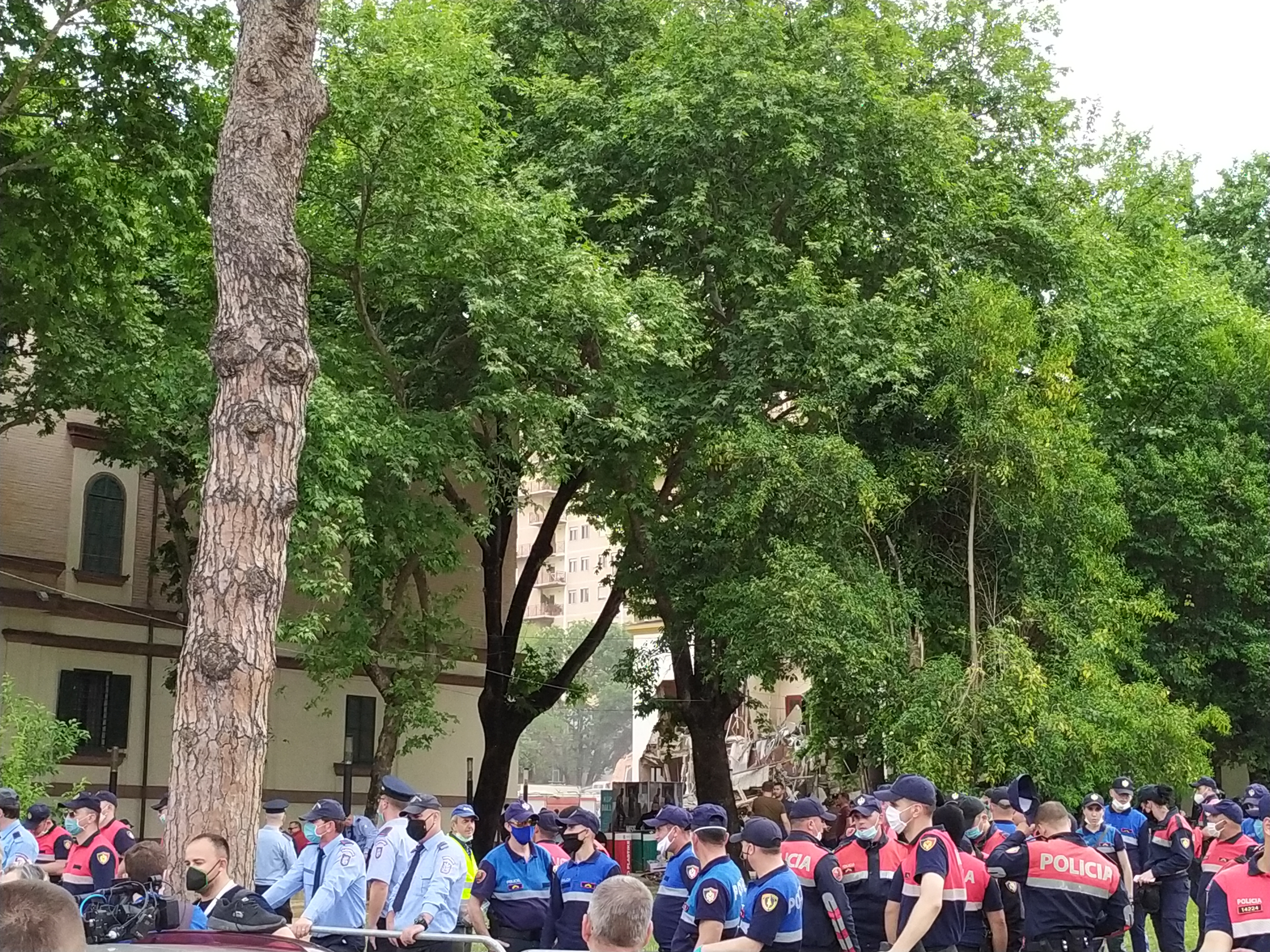 Police perimeter facilitating the demolishing of the National Theater of Albania